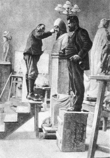 The painter and photographer Heinrich Zille poses for his friend, sculptor August Kraus in his studio at the former Siegesallee in Berlin. Kraus is working on a bust beside the monument, "Wedigo von Plotho" commemorating margrave Henry II of Brandenburg, who was called "Heinrich das Kind" ("Henry the child"). The sculpture was unveiled on 22 March 1900. At present, the statues are stored at the Lapidarium in Berlin-Kreuzberg.